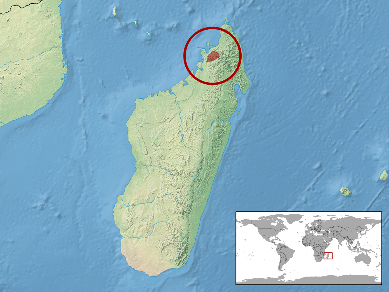 geographic distribution of Brookesia valerieae